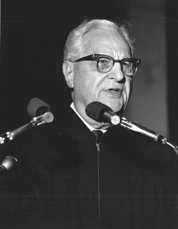 Leonard Usina speaking at Miami-Dade Junior College South Campus graduation ceremony